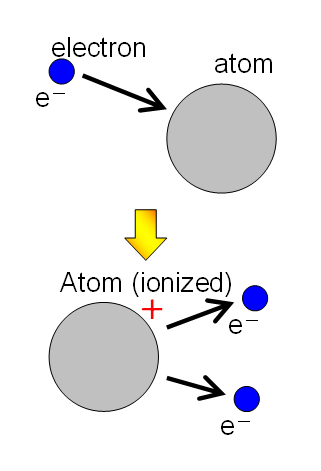 Figure to explain "Impact Ionization"